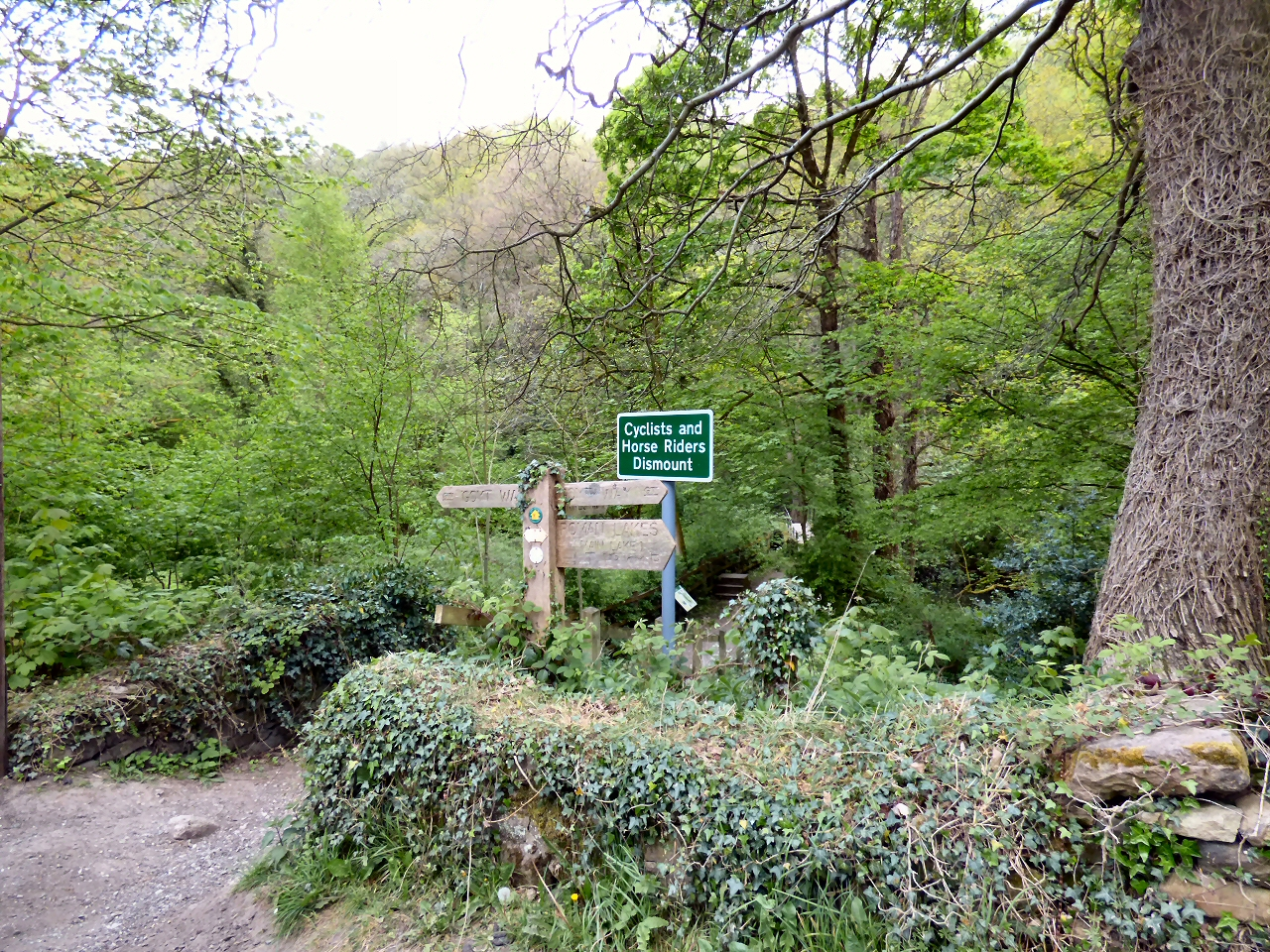 Path Junction